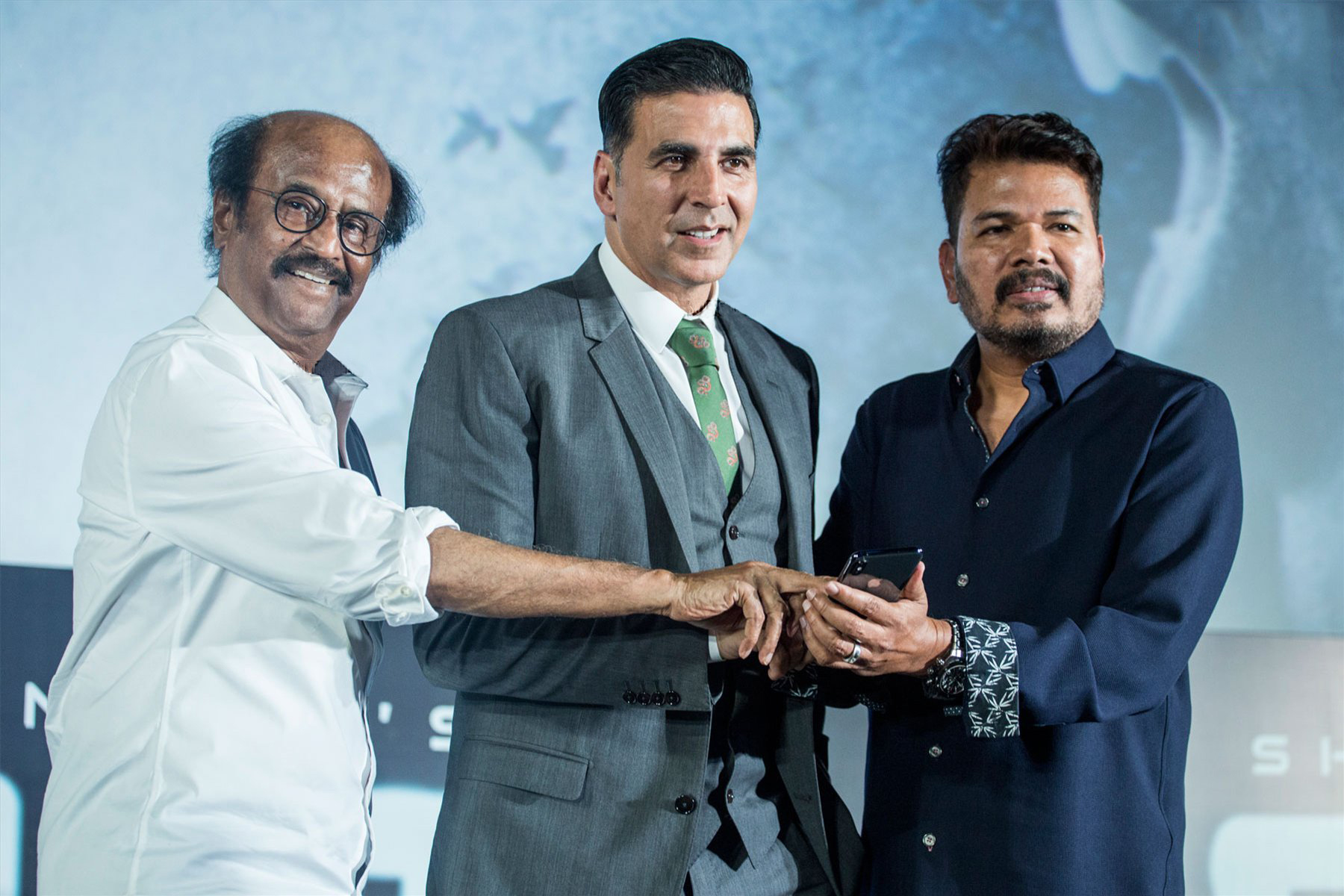 Rajinikanth with Shankar and Akshay kumar at the 2.0 Trailer Launch